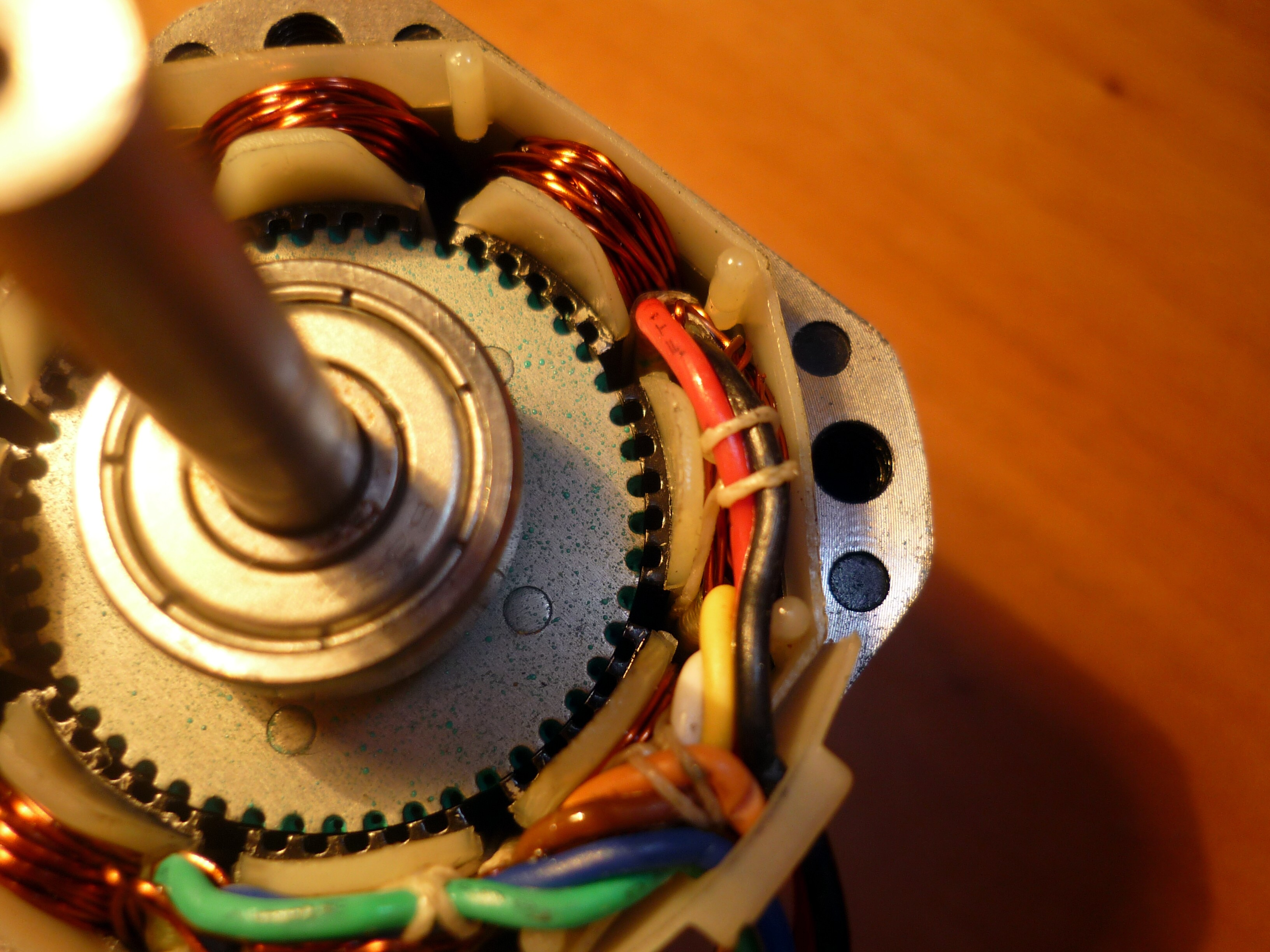 Stepper motor MICROCON SX17-1705; 1.8°; 0.5Nm; 1.7A; 0.35kg